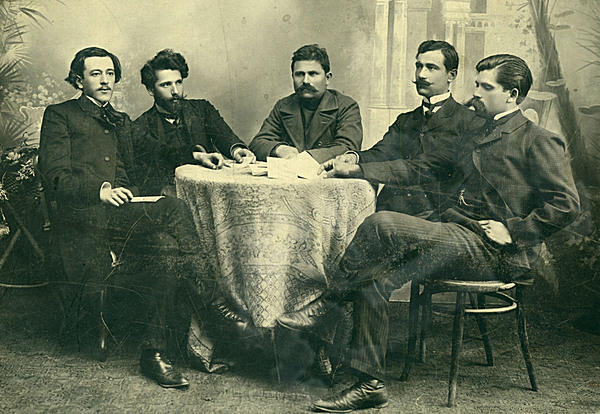 Ivan Harizanov, Anton Strashimirov, Hristo Chernopeev, Petar Kitanov